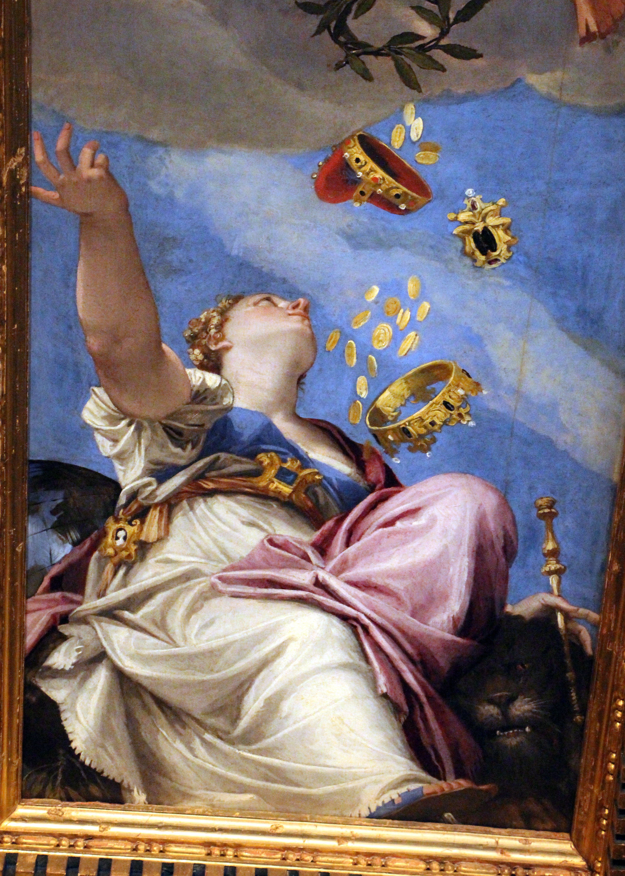 Juno Showering Gifts on Venice by Paolo Veronese